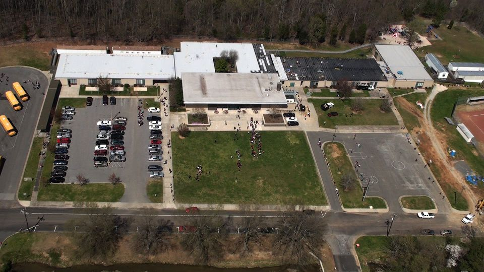 Picture of Overton Elementary School in Salisbury, North Carolina. Taken by the Technology Facilitator, Anthony Johnson on 3-31-10.